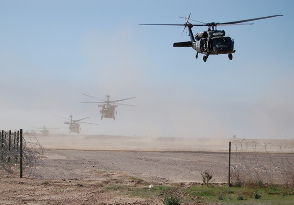 U.S. Army UH-60 Black Hawk helicopters lift off from Forward Operating Base Remagen, Iraq, for Operation Swarmer on March 16, 2006. Soldiers from the Iraqi Army's 1st Brigade, 4th Division and the U.S. Army's 101st Airborne Division's 3rd Brigade Combat Team are taking part in the combined air assault operation to clear the area northeast of Samarra of suspected insurgents. DoD photo by Sgt. 1st Class Antony Joseph, U.S. Army. (Released)